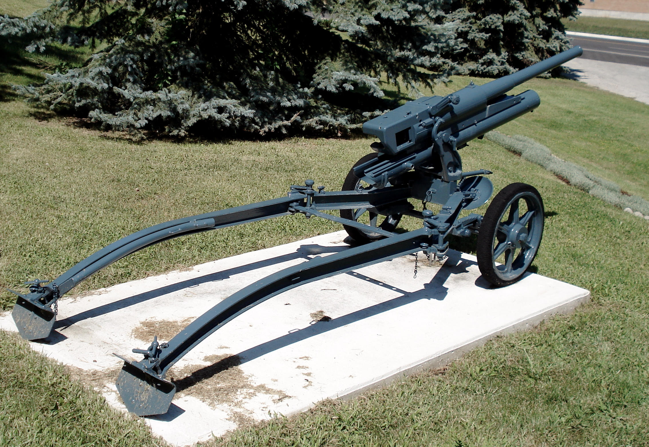 Italian 47 mm anti-tank gun (Cannone da 47/32) displayed on the grounds of CFB Borden (Base Borden Military Museum). The canon stamp states: CANNONE DA 47/32 MOD. 39 Photo taken on August 12, 2006. Source: Photo by me, User:Balcer.